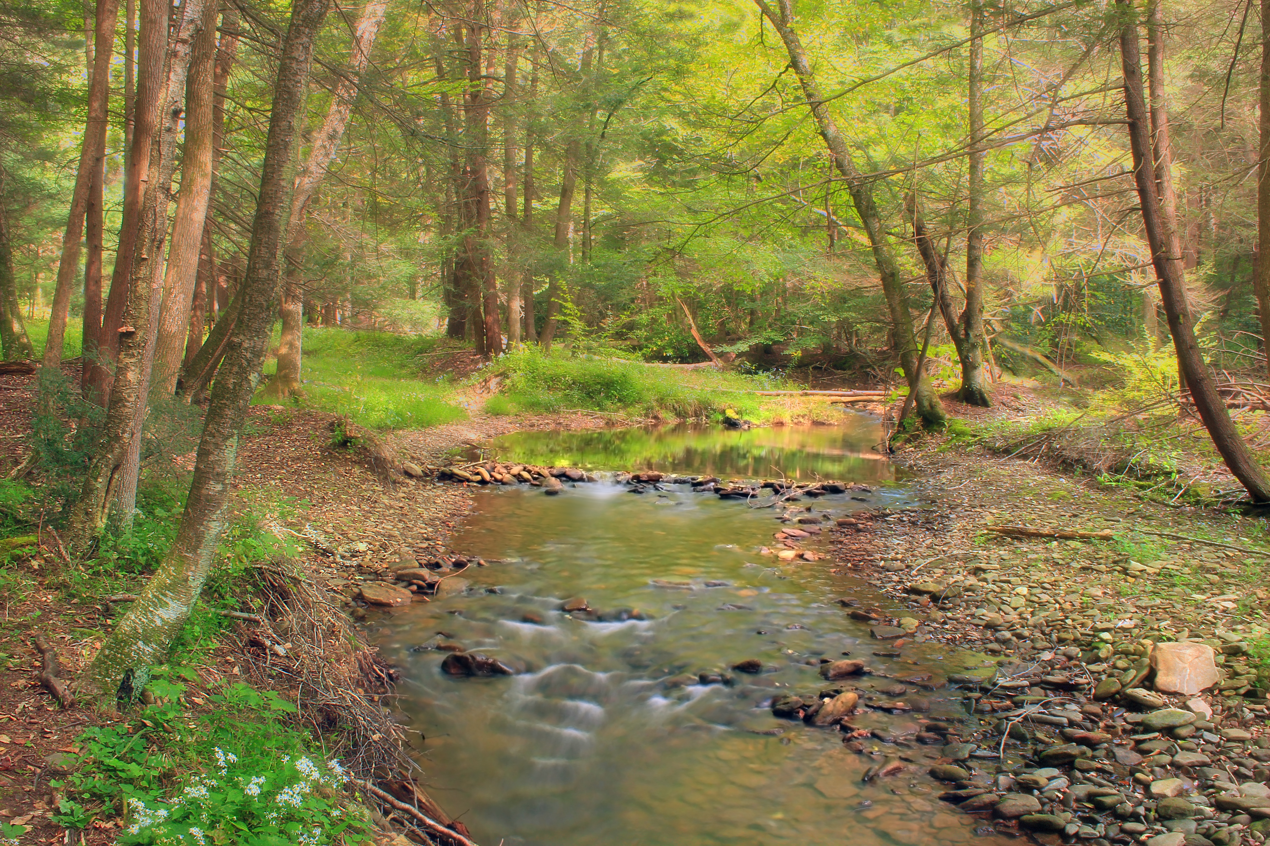 Namesake stream, Hyner Run State Park, Clinton County, Pennsylvania, USA